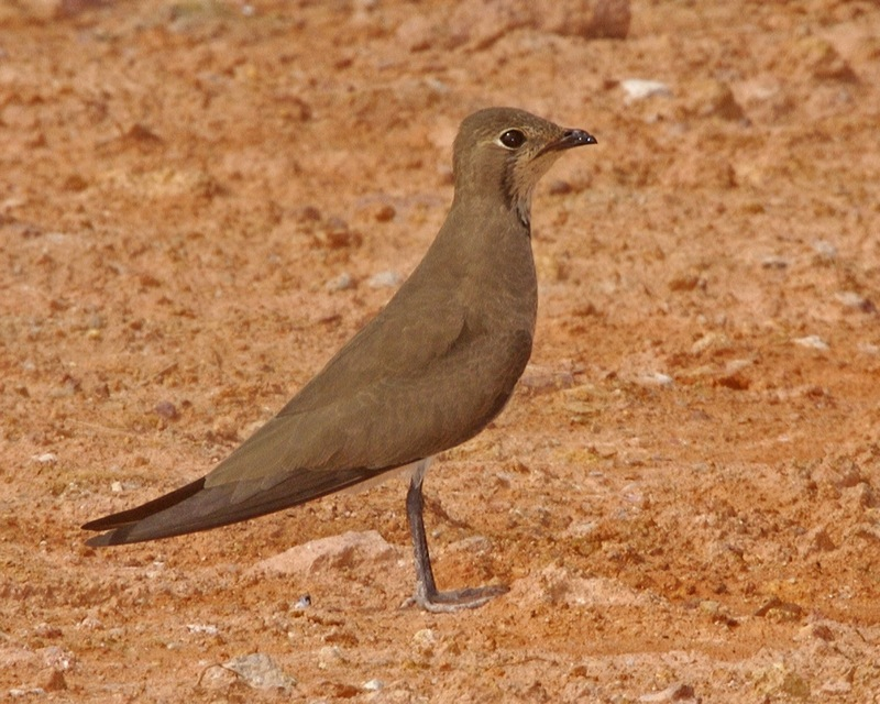 Oriental Pratincole Adult - non-breeding Glareola maldivarum November 5, 2006 Reclaimed land, Changi, Singapore